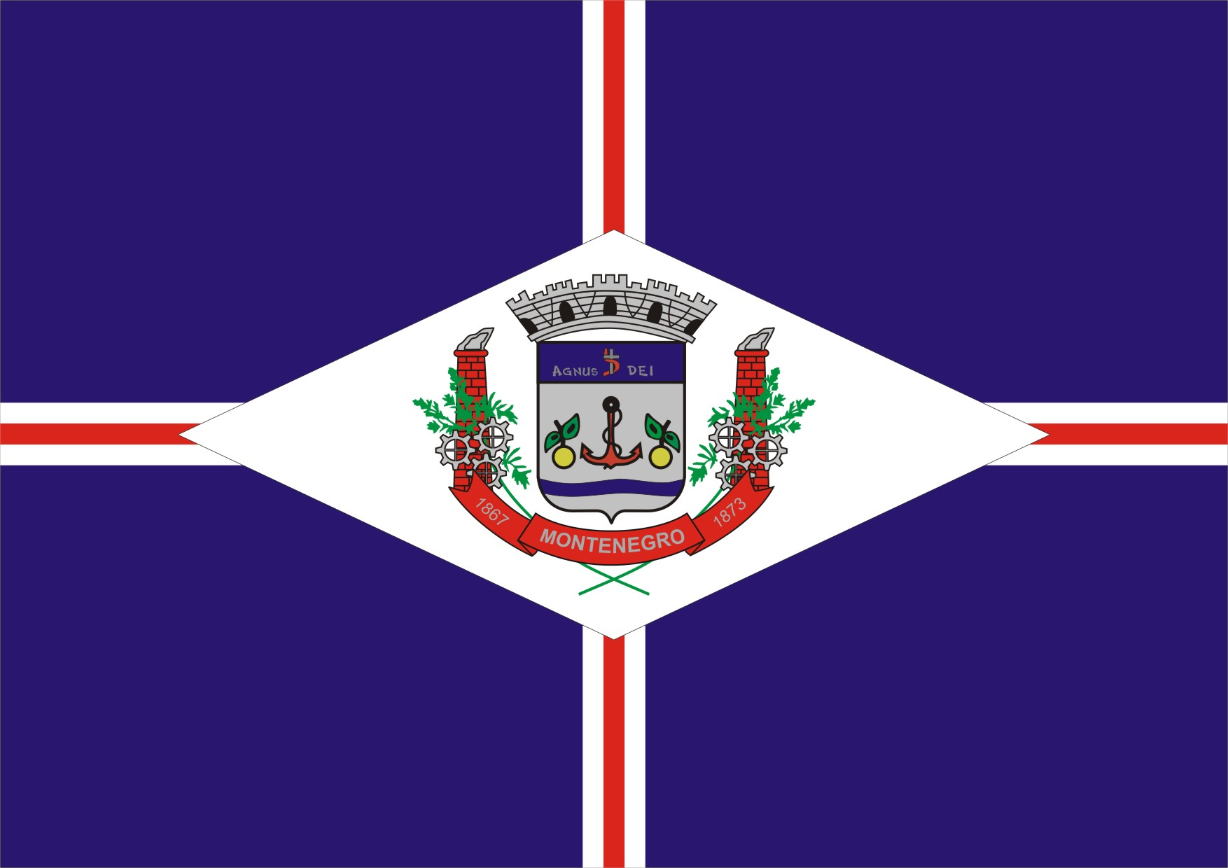 Flag of Montenegro, Rio Grande do Sul, Brasil